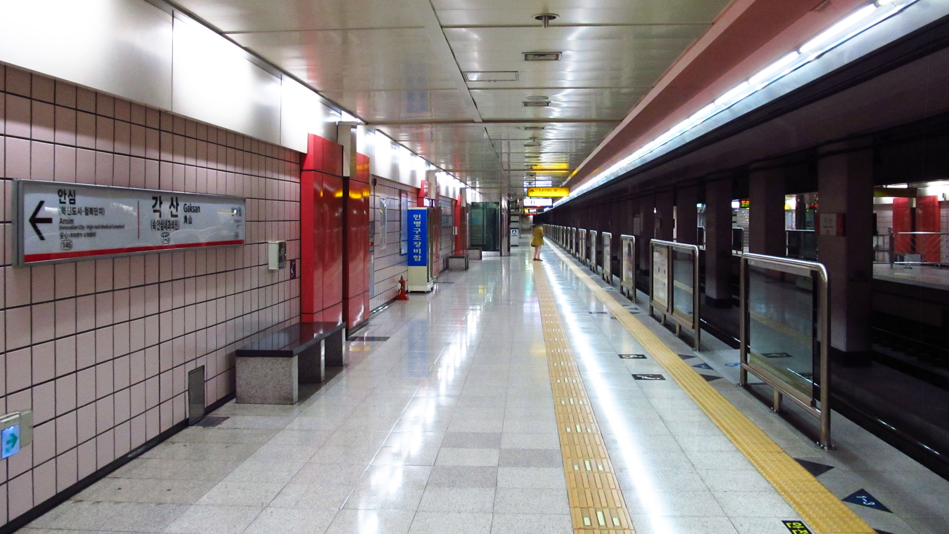 The platform of Gaksan Station on the Daegu Metro Line 1, for Ansim